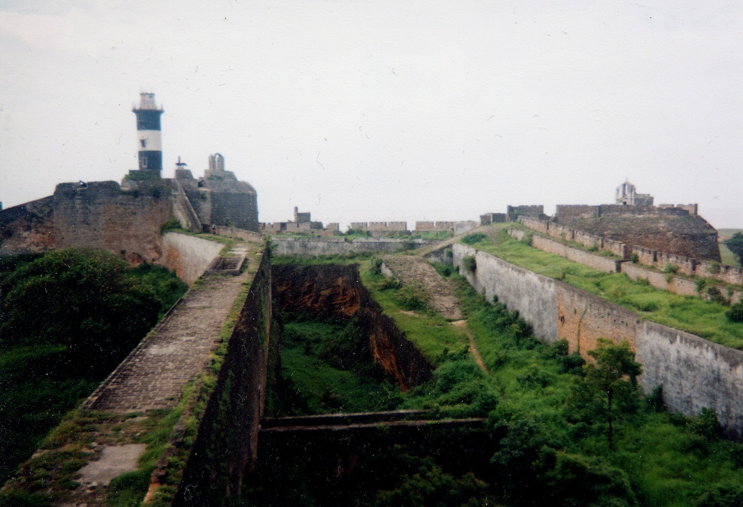 Diu - inside the historical portuguese Diu fort. Cavaleiro lighthouse. India.